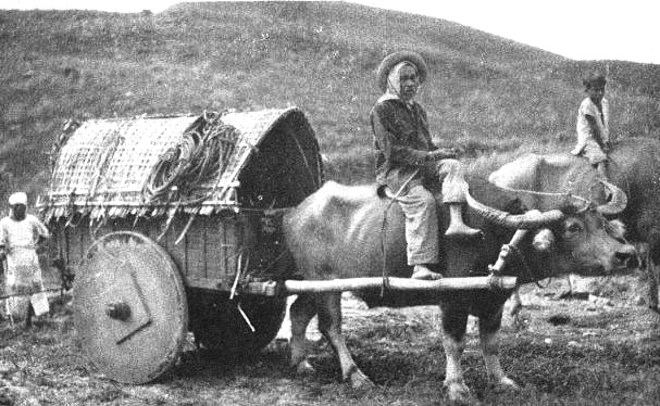 Ilocanos emigrating to the Cagayan Valley